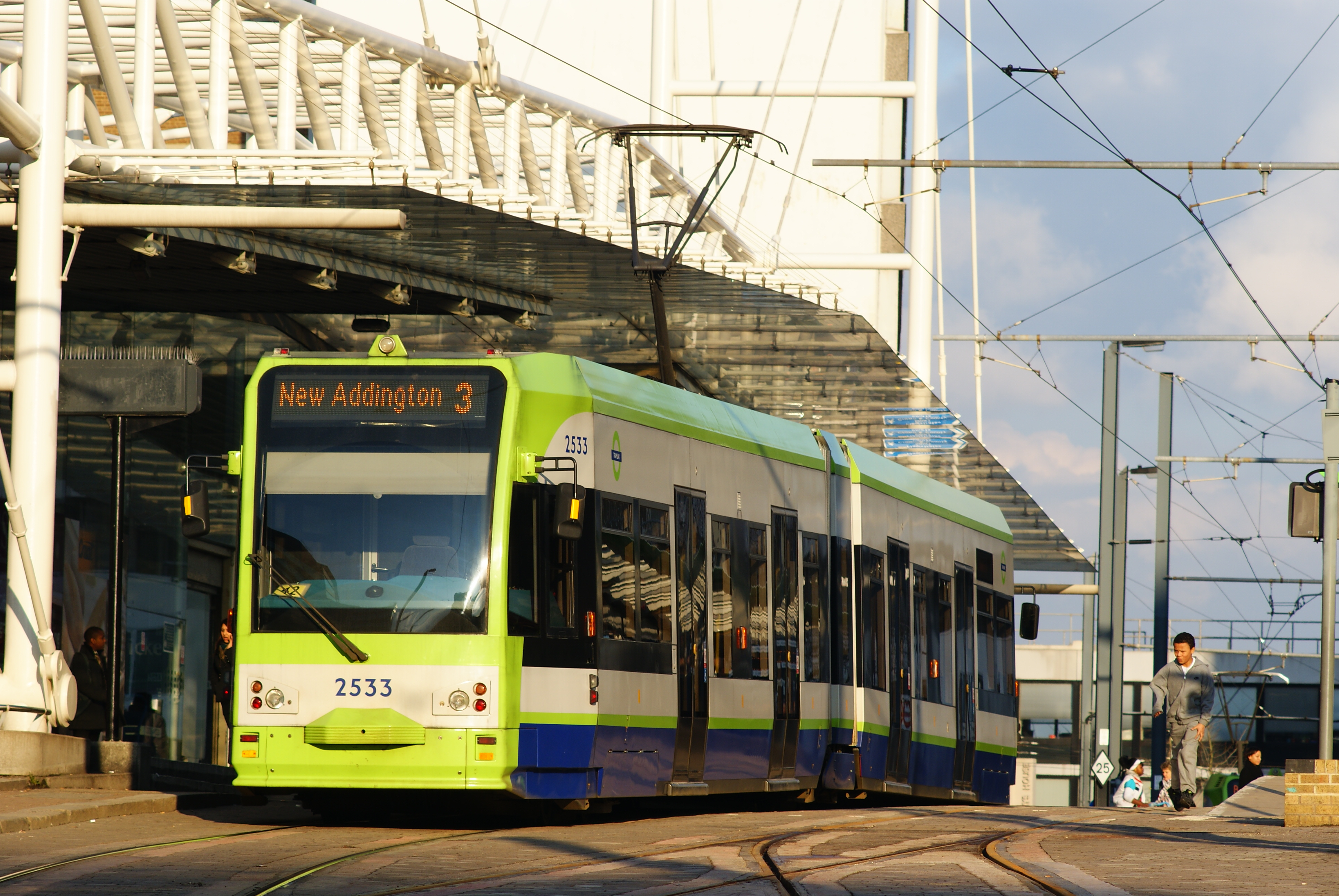 Tram Arriving at East Croydon New Addington tram seen arriving at East Croydon, with the tram nicely "framed" by the platform canopy. On departure, it will run off the overbridge, and follow the preceding tram which can just be seen, disappearing, to the right of the passenger.